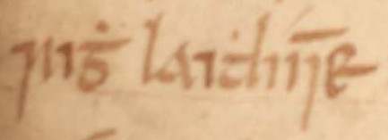 An excerpt from folio 24r of Oxford Bodleian Library MS Rawlinson B 489 (the Annals of Ulster). The excerpt shows the title of the King of Laithlind.